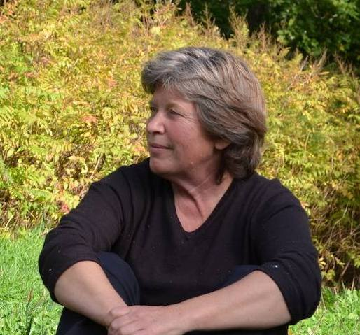 Kersti Uibo, director